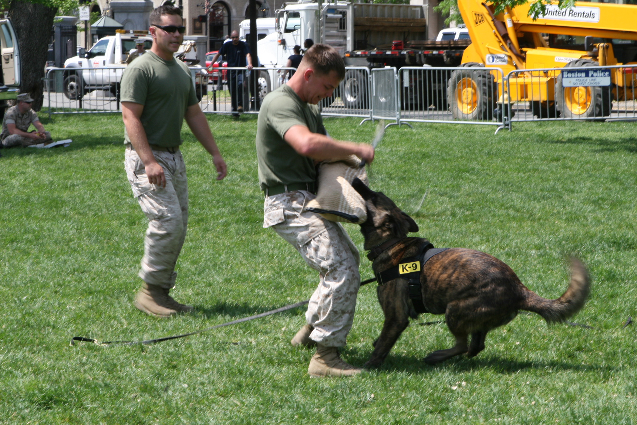 Sgt. Shain E. Nickerson and Lance Cpl. Andrew J. Marcum, Marine working dog handlers with Military Police Support Company, II Marine Headquarters Group shows off Bandit, a four-year-old Patrol Explosive Detection Dog, during a training demonstration at Boston Common May 4, 2010. The handlers showed the Boston citizens a few training tactics and exactly what the police dogs are capable of.